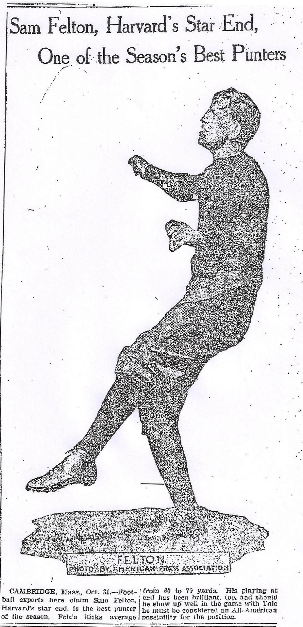 Image of Sam Felton